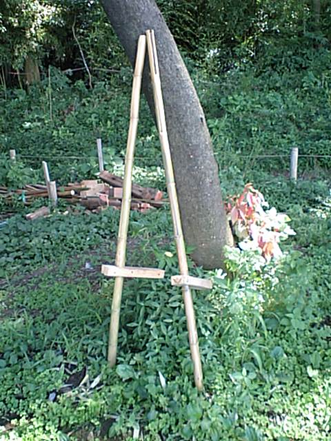 Japanese bamboo stilts